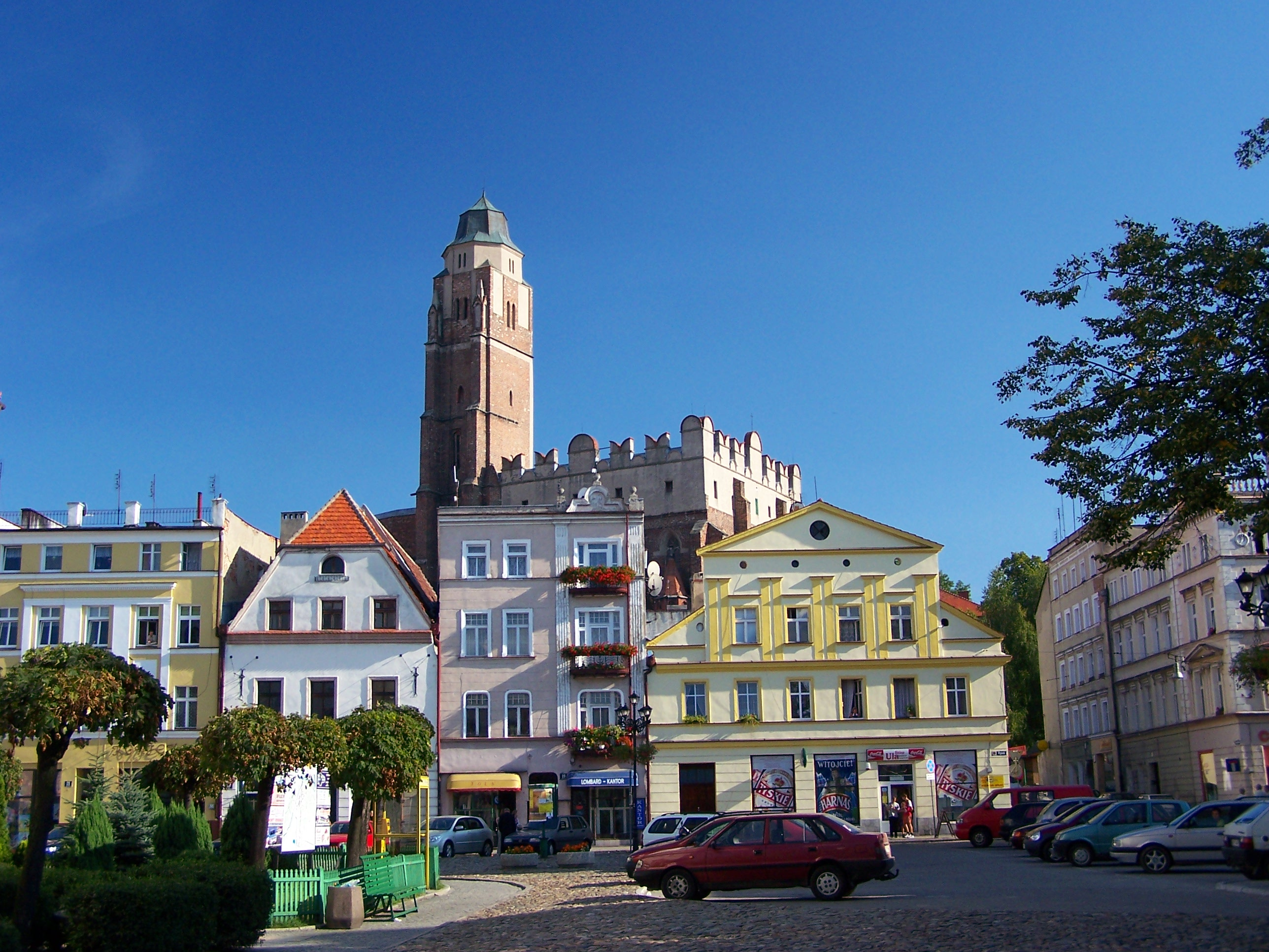 Marketplace in Paczków (Lower Silesia, Poland).